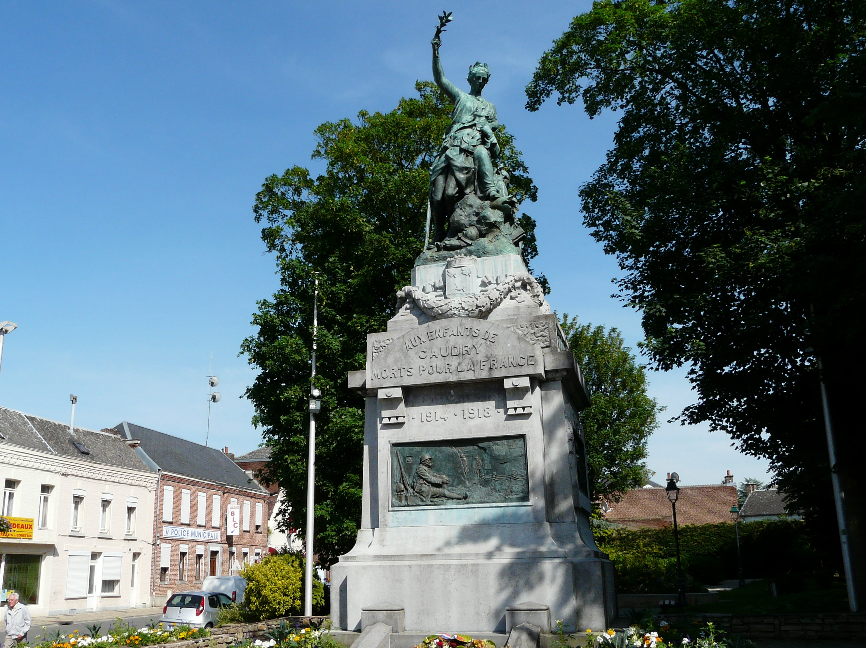 First World War memorial in Caudry (France)